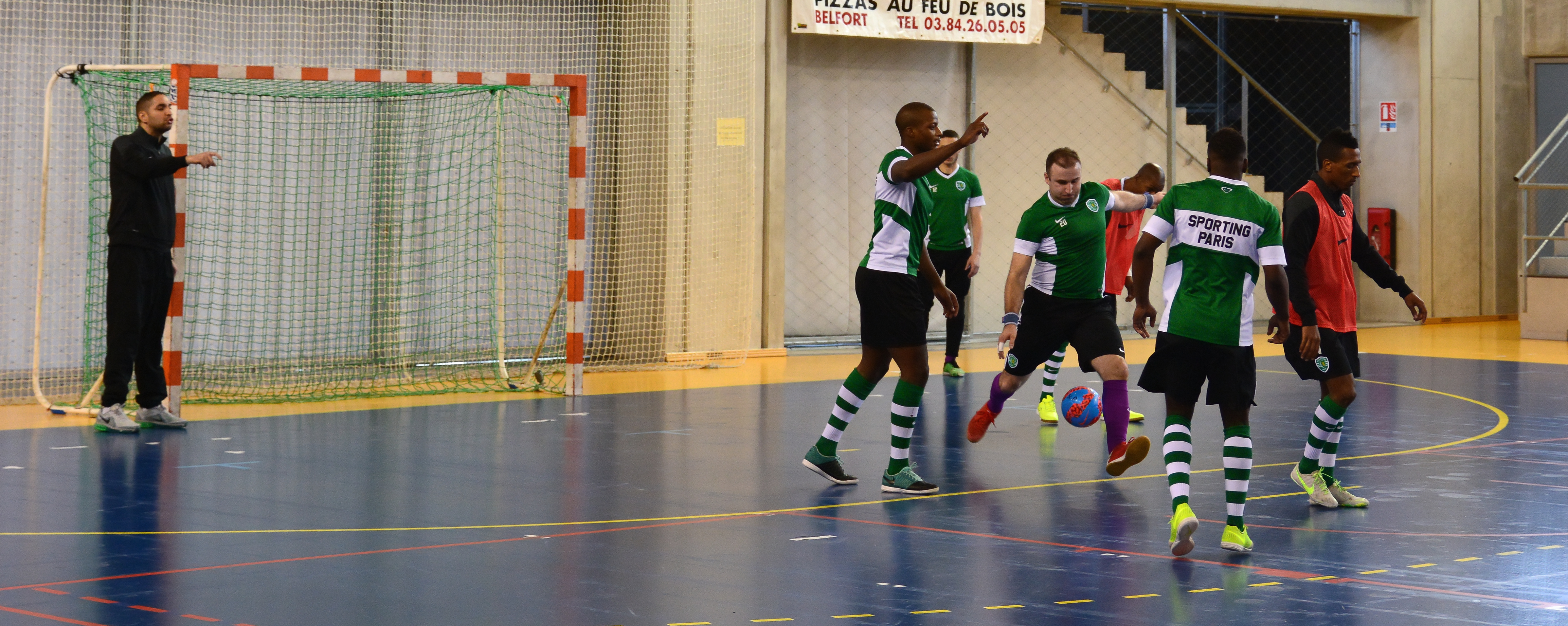 This image was taken with a Tamron SP AF 24-70mm F / 2.8 Di VC USD objective for Nikon digital single-lens reflex camera donated for photos by Wikimédia France. English | français | +/− Personality rights warningAlthough this work is freely licensed or in the public domain, the person(s) shown may have rights that legally restrict certain re-uses unless those depicted consent to such uses. In these cases, a model release or other evidence of consent could protect you from infringement claims.